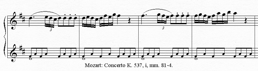 This illustration shows the beginning of the piano solo in the first movement of Mozart's Piano Concerto No. 26, K. 537 (measures 81-4). The upper staff shows the notes written in Mozart's autograph score. The lower staff, presented here in smaller notes, is not given in the autograph but first appeared in the 1794 edition printed by Johann Andre. Graphic created by T.L. Hubeart Jr. (user name: MollyTheCat) based on the Alte Mozart-Ausgabe edition of Mozart's concerto K. 537 with consultation of Mozart: Piano Concerto No. 26 in D Major ("Coronation"), K. 537--The Autograph Score. (NY: The Pierpont Morgan Library in association with Dover Publications, 1991). Created using Finale 2007. Source is public domain music by Wolfgang Amadeus Mozart.